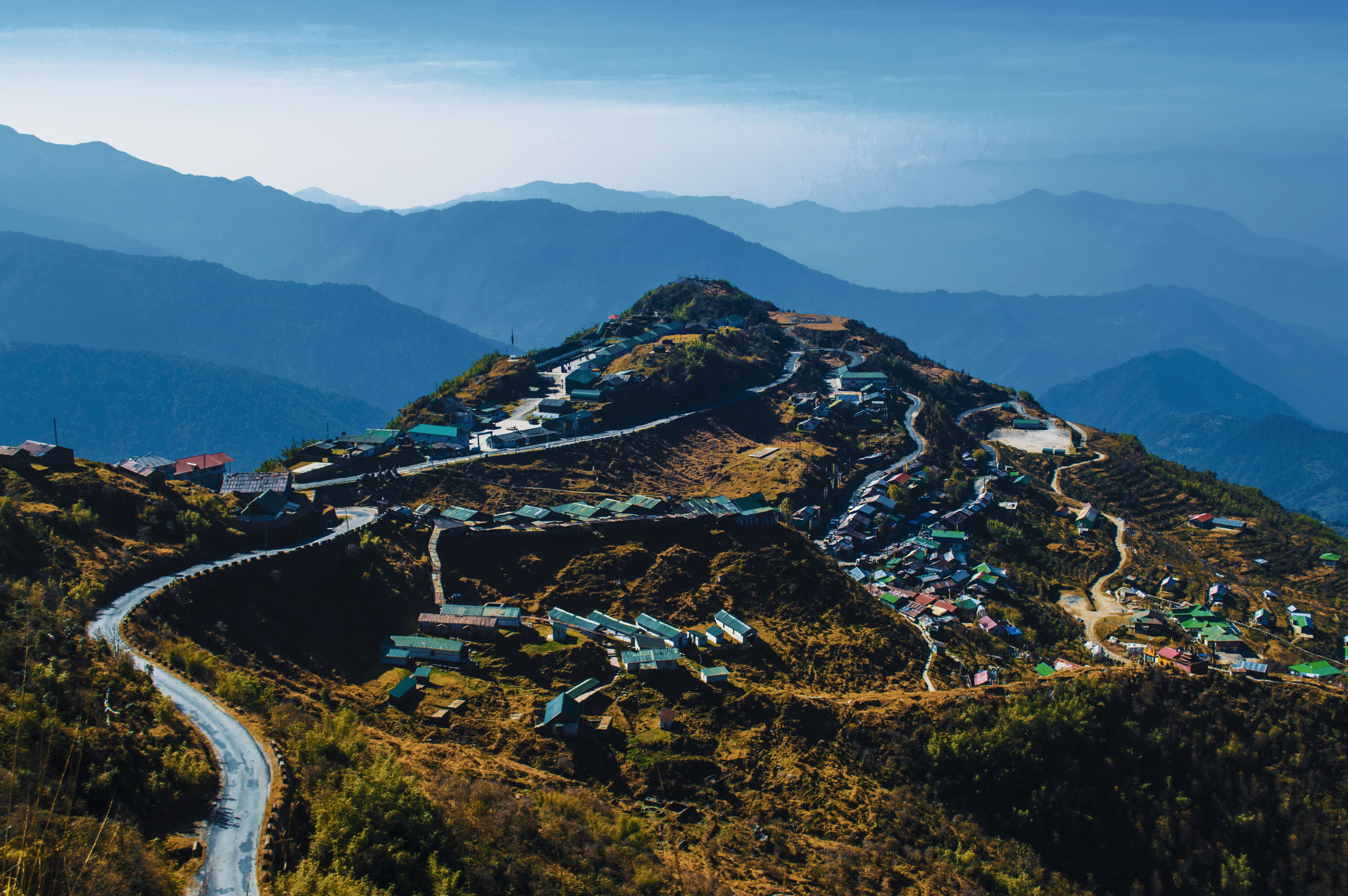 zuluk village view from Birds eye view point.